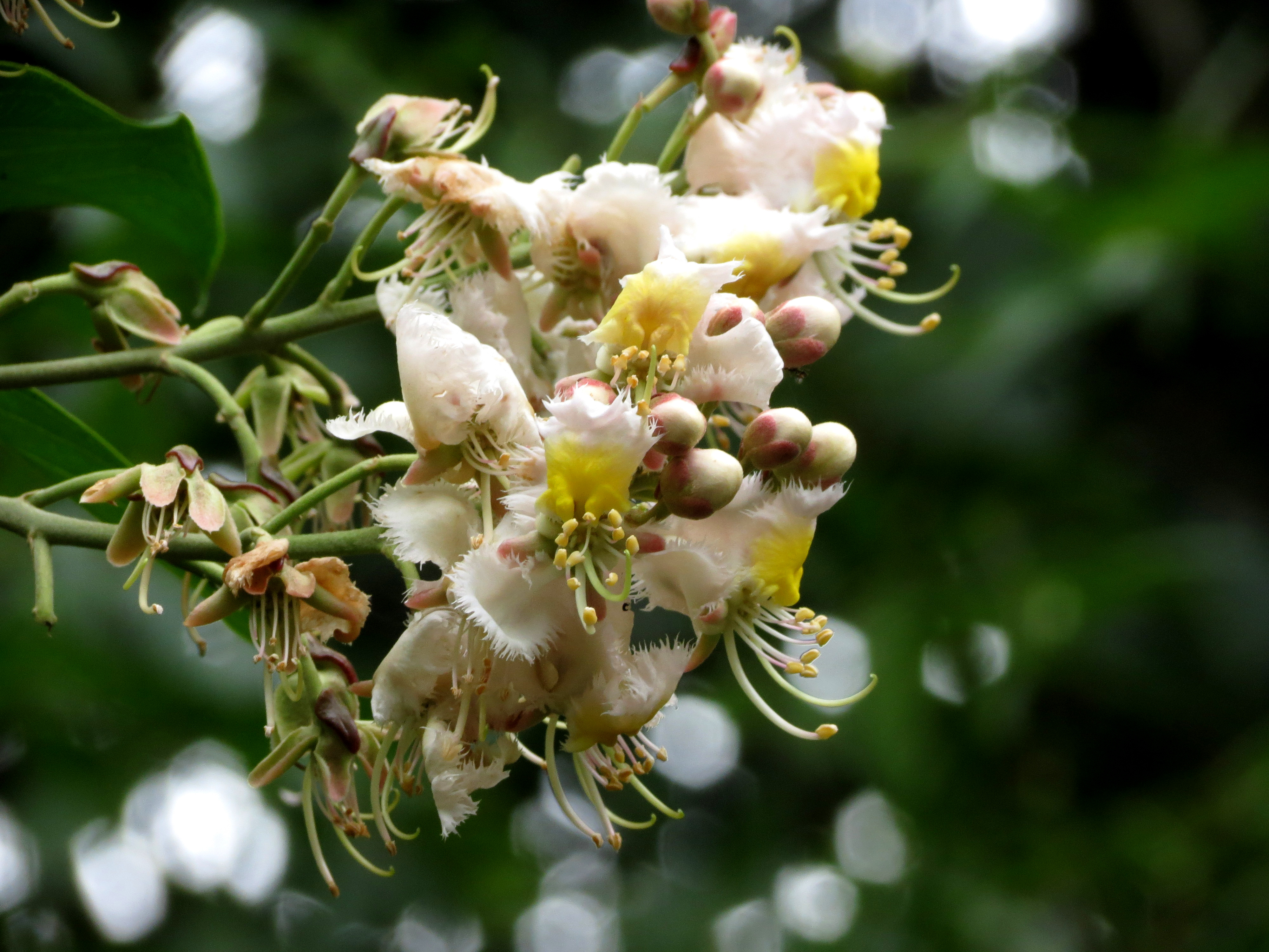 Hiptage benghalensis seen in Gulkamale bangalore rural off Kanakapura road